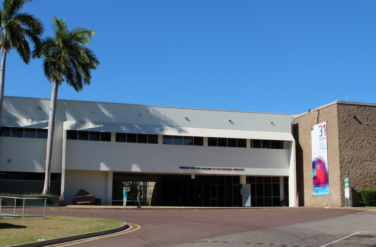 Located in Darwin, Northern Territory, Australia